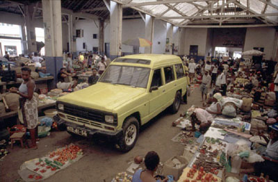 Inside the main market of Sao Tomé. Photograph by Henryk Kotowski.